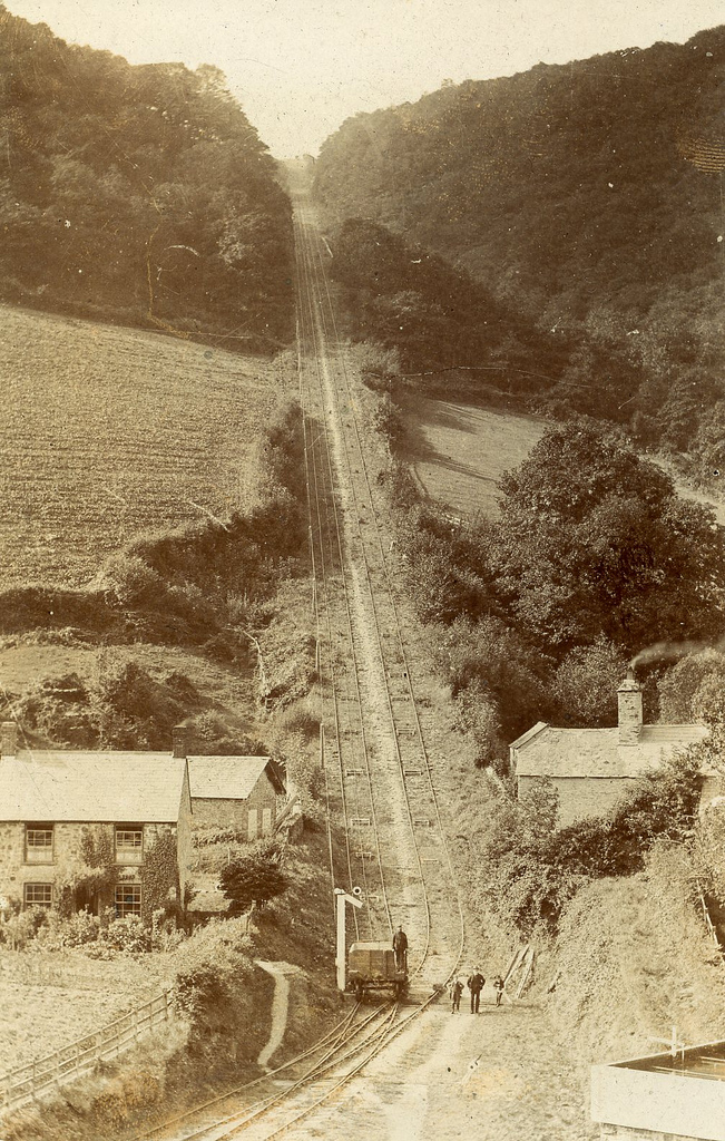 The inclined plane on Brendon Hill on the West Somerset Mineral Railway, seen from the southwest in a photograph by Herbert H Hole, who died in 1900